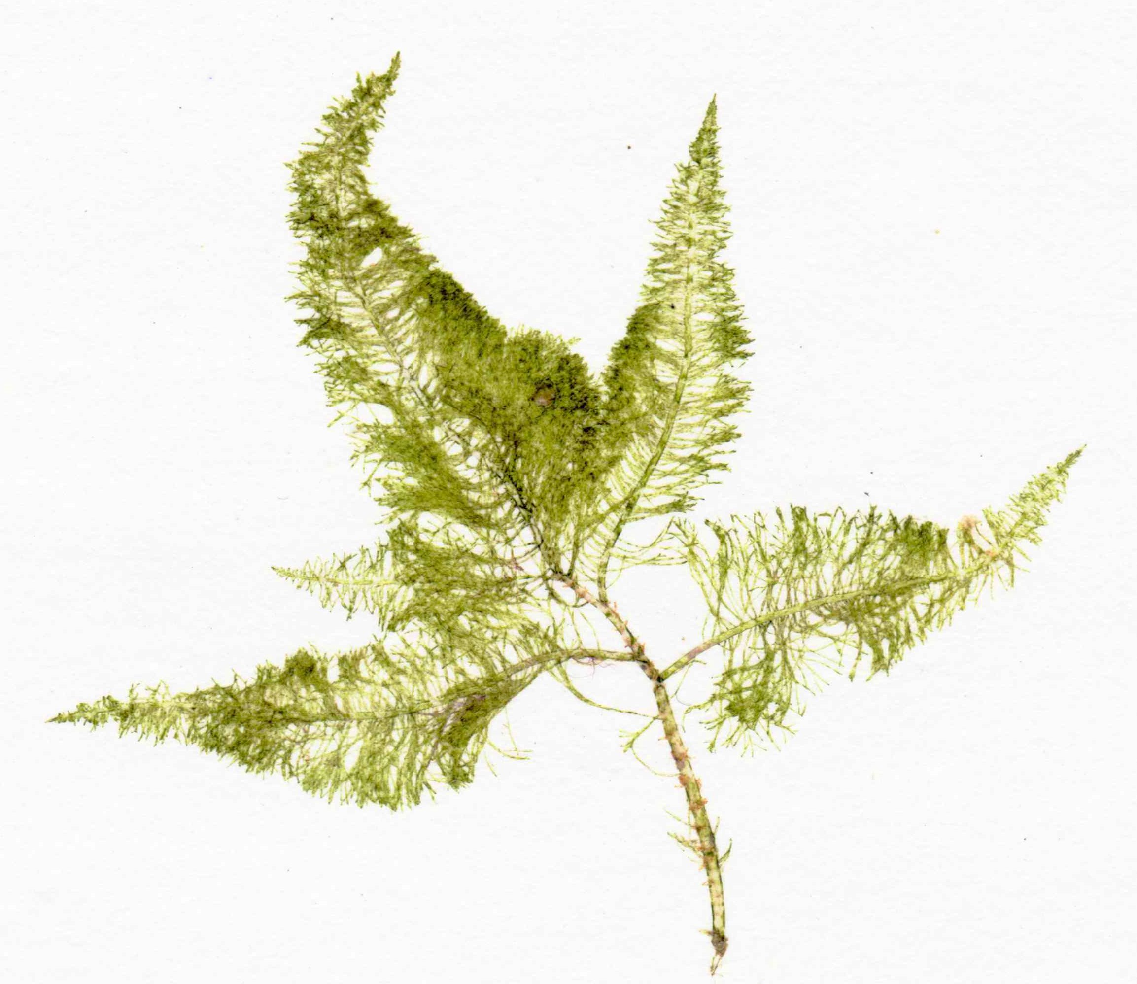 Bryopsis plumosa, herbarium item (personnal collection / full size = 4 cm), collected in july 1982 near Villefranche-sur-mer (France), scanned on 2010-02-01